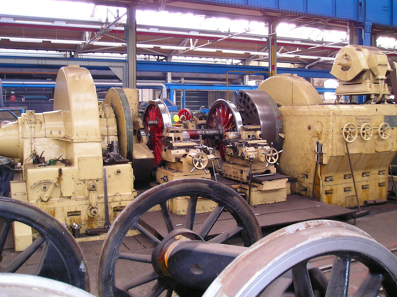 lathe for railway wheels in steam loco workshop Meiningen, Germany